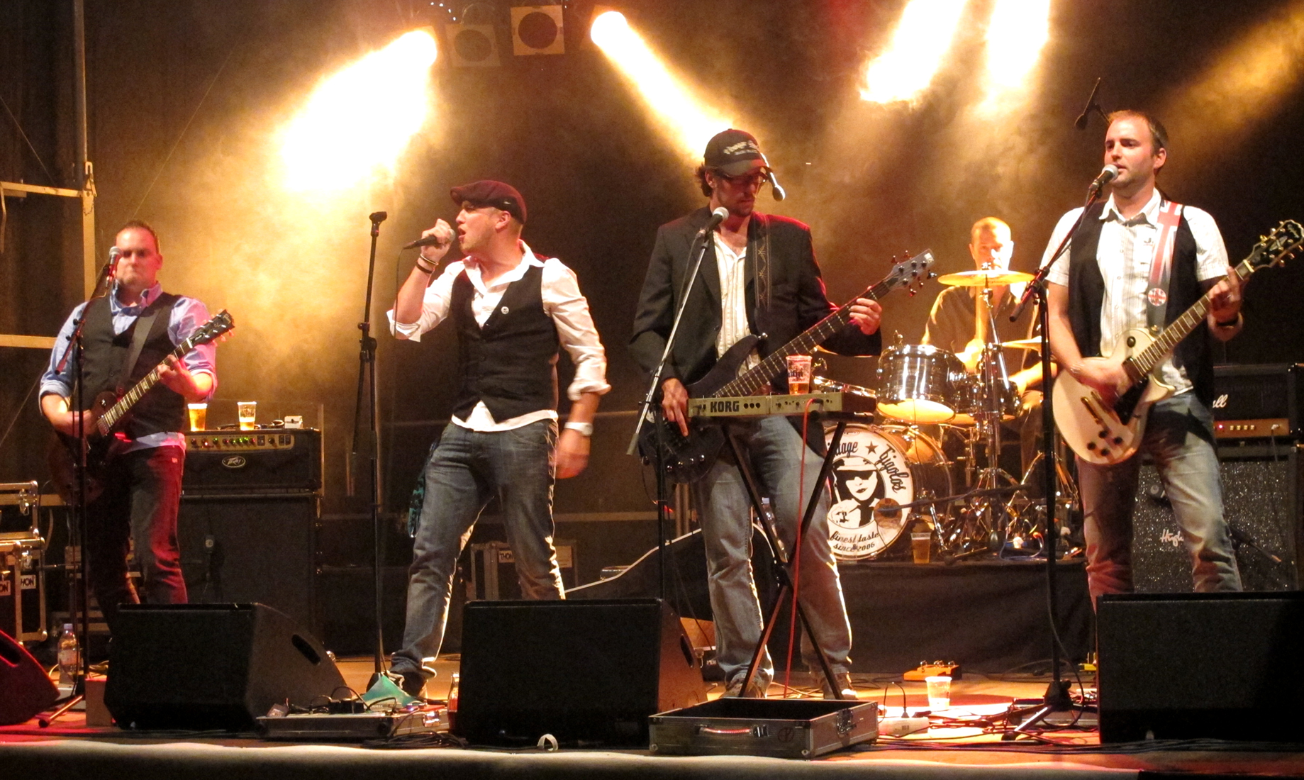 The Vintage Gigolos at the Fête de la Musique in Niederanven, Luxembourg